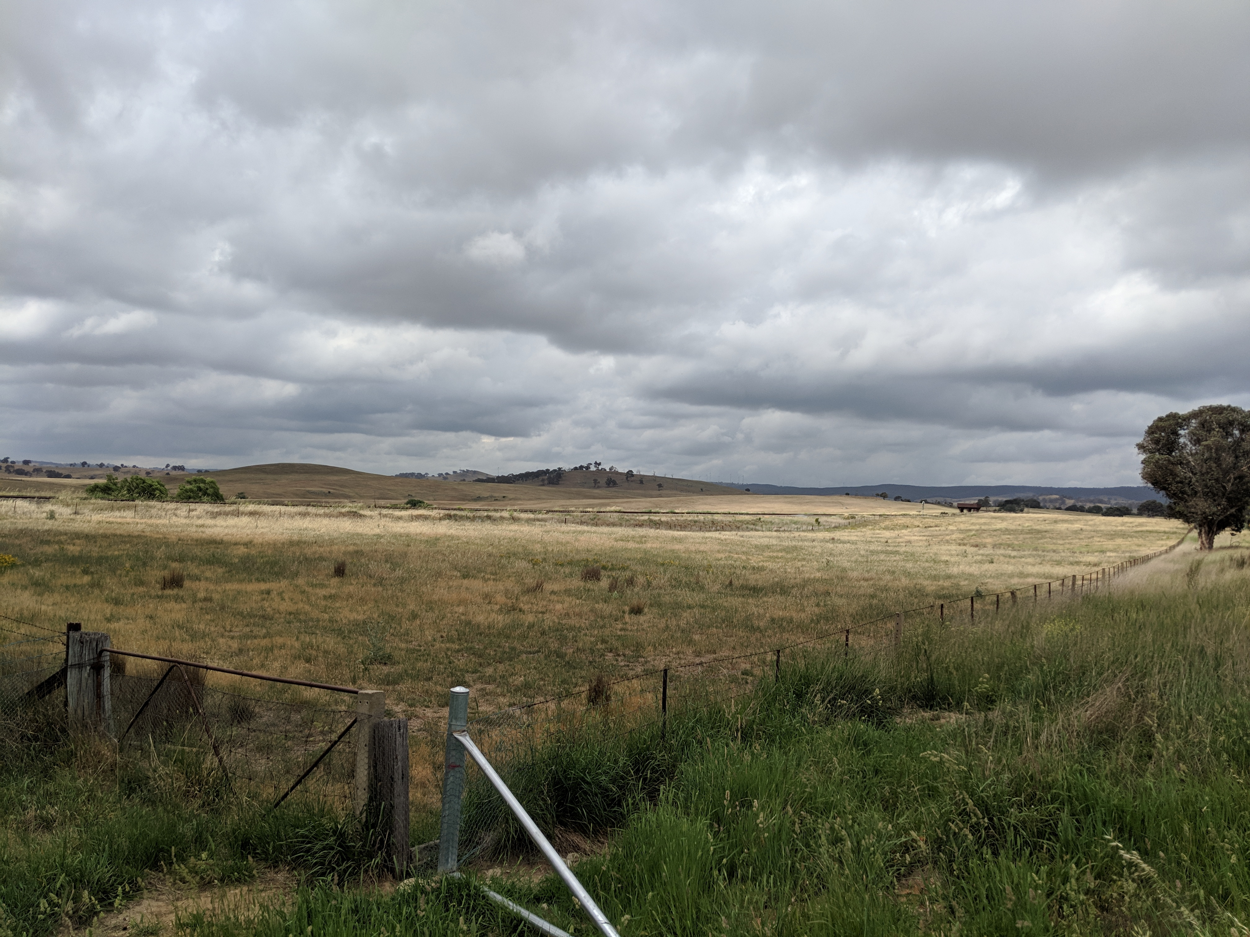 Fish River railway station site, Cullerin, New South Wales